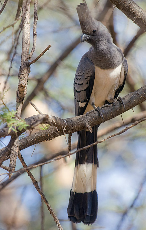 White-bellied go-away-bird from Serengeti National Park, Tanzania